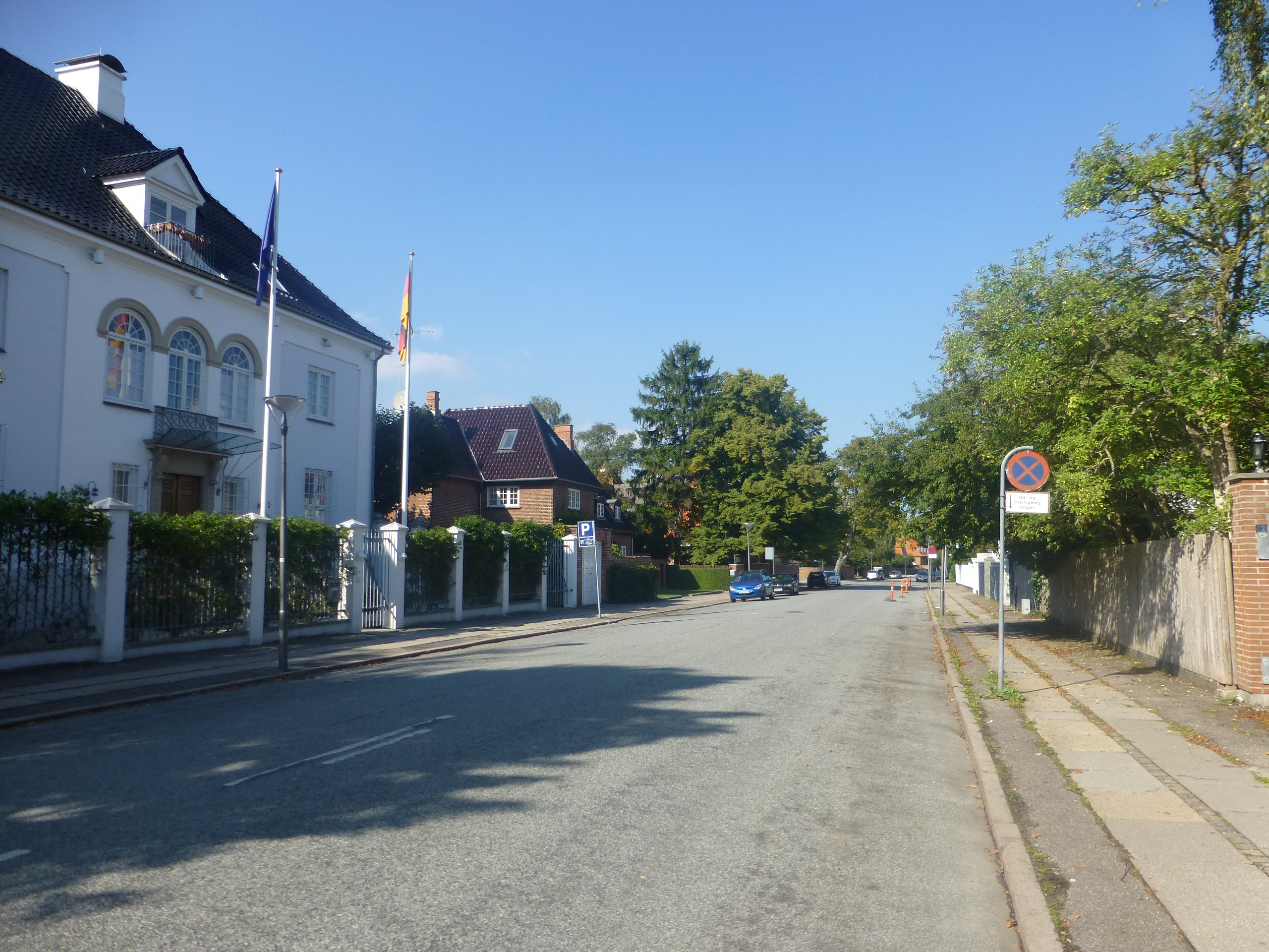 The street Vestagervej in Østerbro in Copenhagen. At the left the residence of the german ambassador.